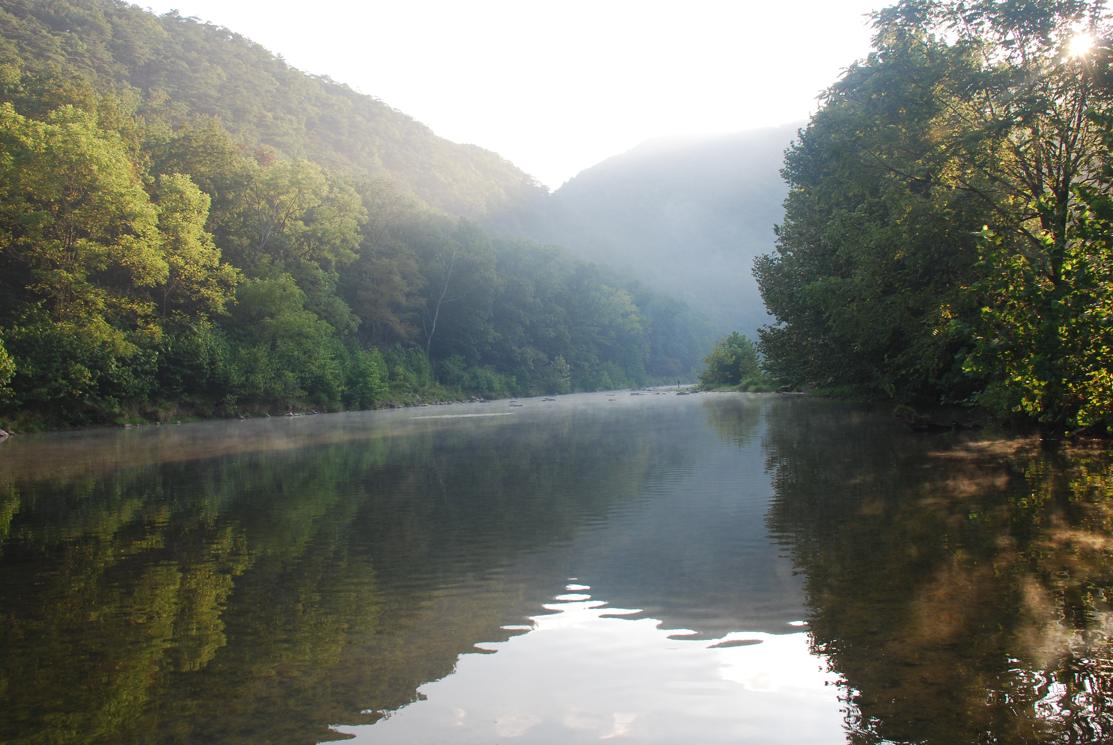 South Branch Potomac River near Big Bend Campground in Smoke Hole Canion, West Virginia.